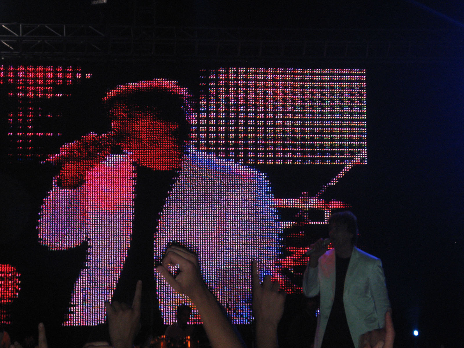 Concert of Zdravko Colic in Pirot, Serbia